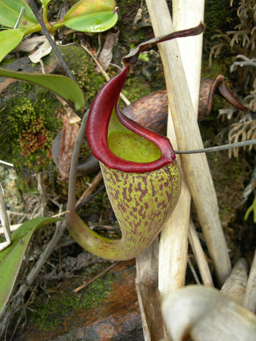 N.fusca Crocker Range